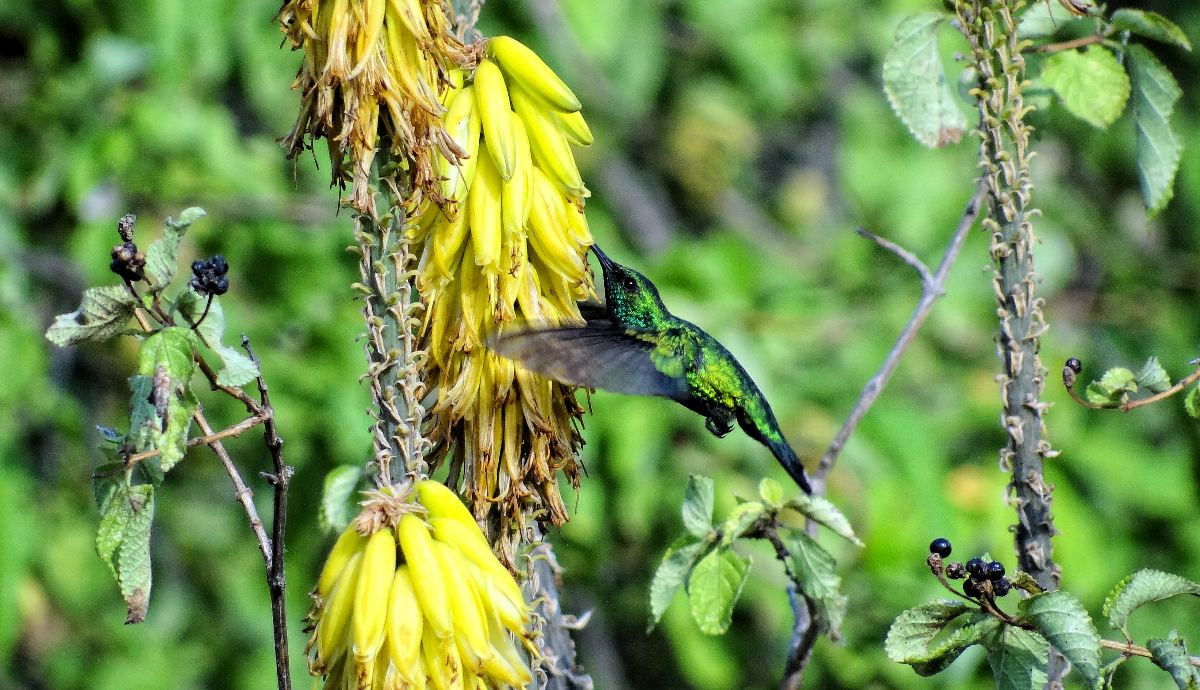 A Blue-tailed emerald photographed in Arikok National Park on Aruba.